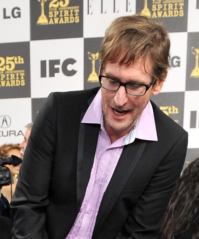 Actor Ray McKinnon at The 25th Spirit Awards Blue Carpet held at Nokia Theatre L.A. Live on March 5, 2010 in Los Angeles, California. Photo by George Pimentel/WireImage.com